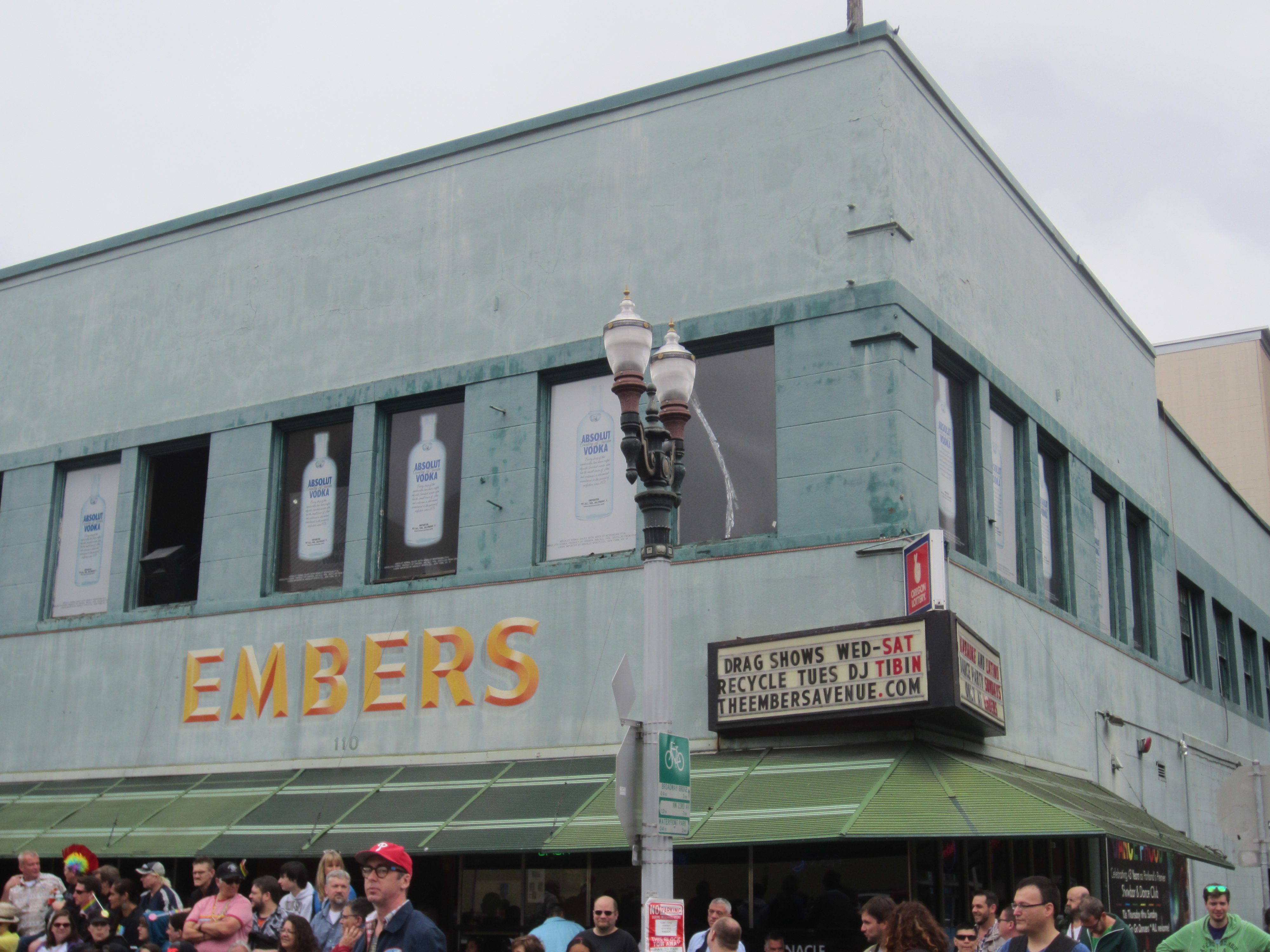 Portland Pride Parade (Oregon), June 14, 2014